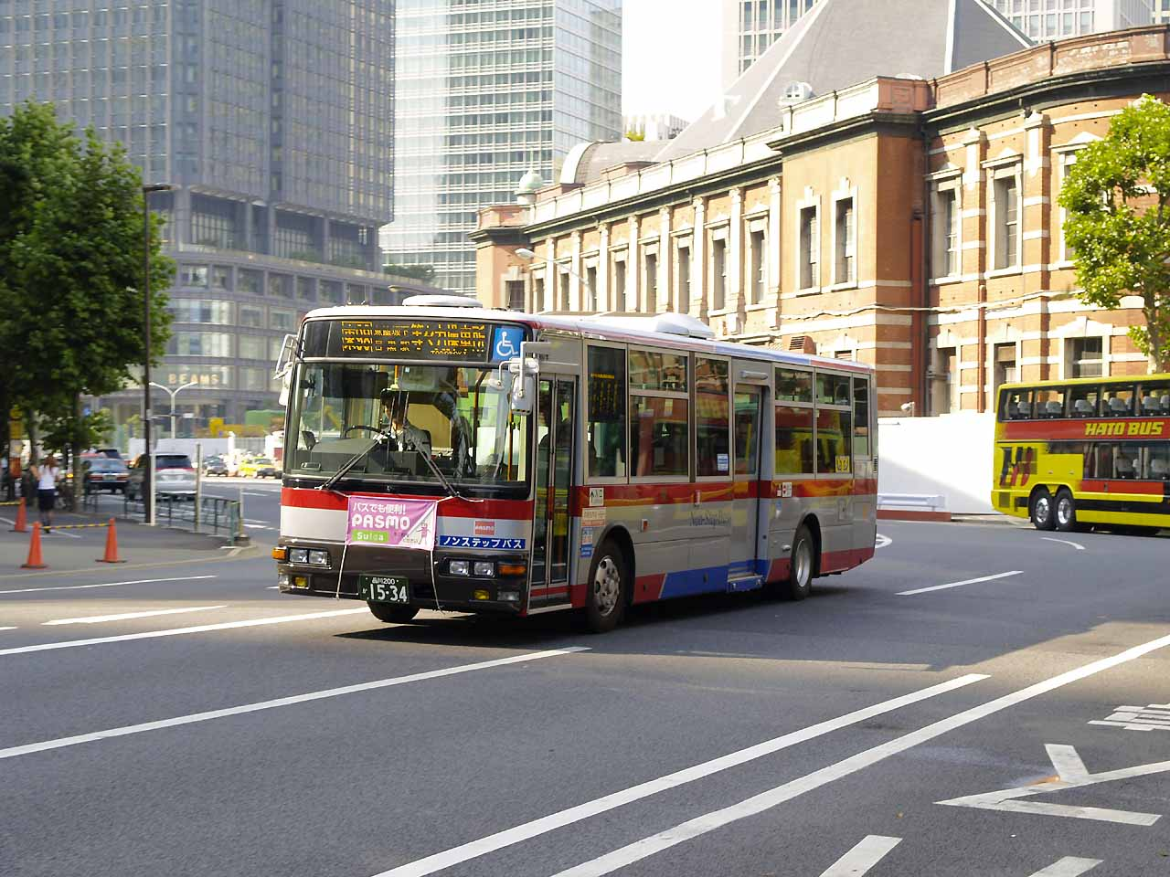 Tokyu Bus Higashi 98 route started Tokyo station. Model: Mitsubishi Fuso Aero Midi PA-MK27FM License plate: TKS200 KA1534 Place: neighbour of Tokyo station, Marunouchi, Chiyoda ward, Tokyo Japan 東急バス東98系統のエアロミディMK。都営バスとコミュニティバス・高速バス以外の一般路線バスでは現時点で唯一東京駅に乗り入れる民営バス路線。 登録番号：品川200か1534 撮影地：東京都千代田区丸の内・東京駅丸の内南口付近